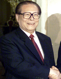 Cropped image of Chinese General Secretary Jiang Zemin at the Yusupov palace in St. Petersburg. Original image was uploaded to Wikimedia Commons by ASDFGH